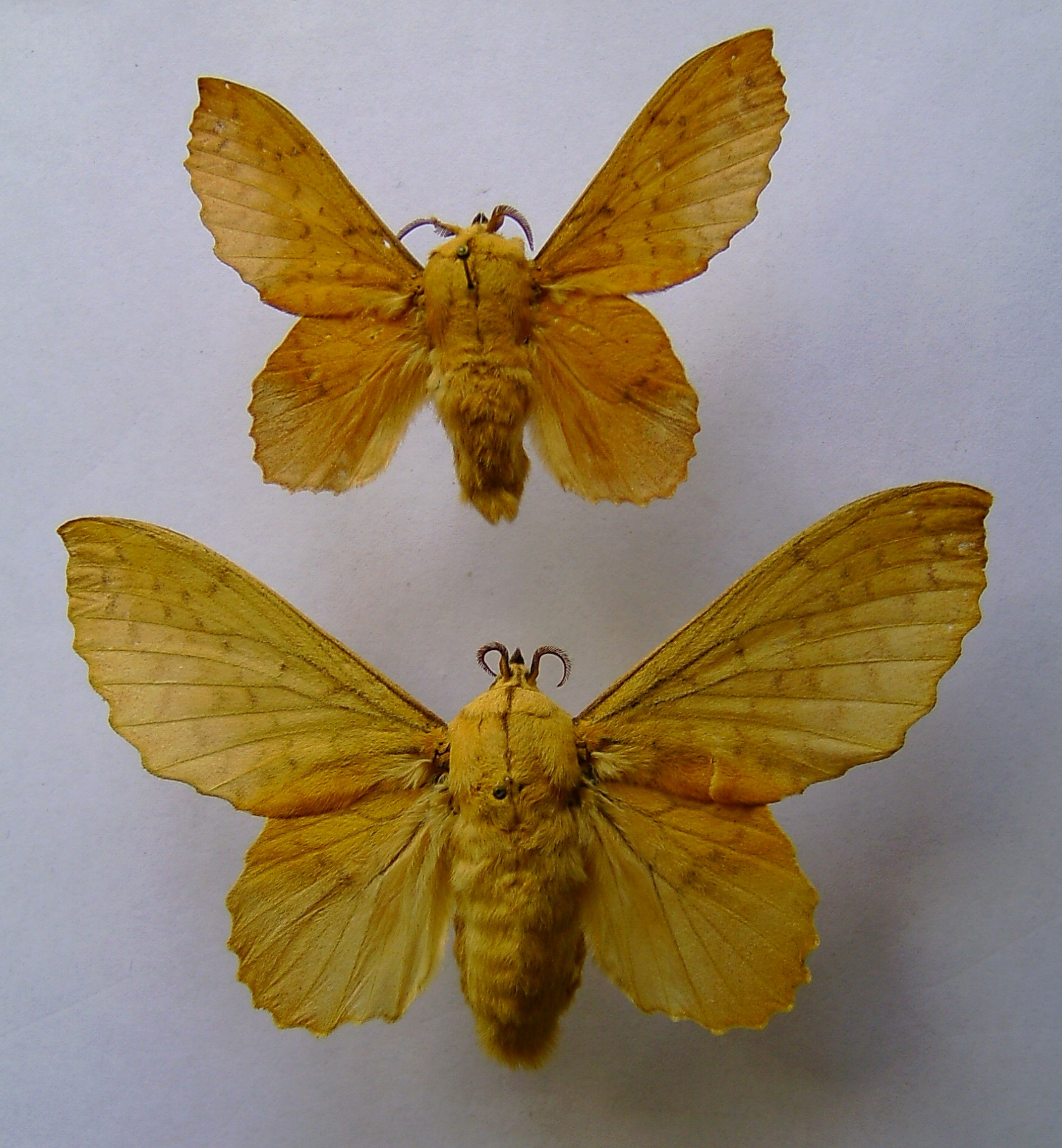 Gastropacha populifolia